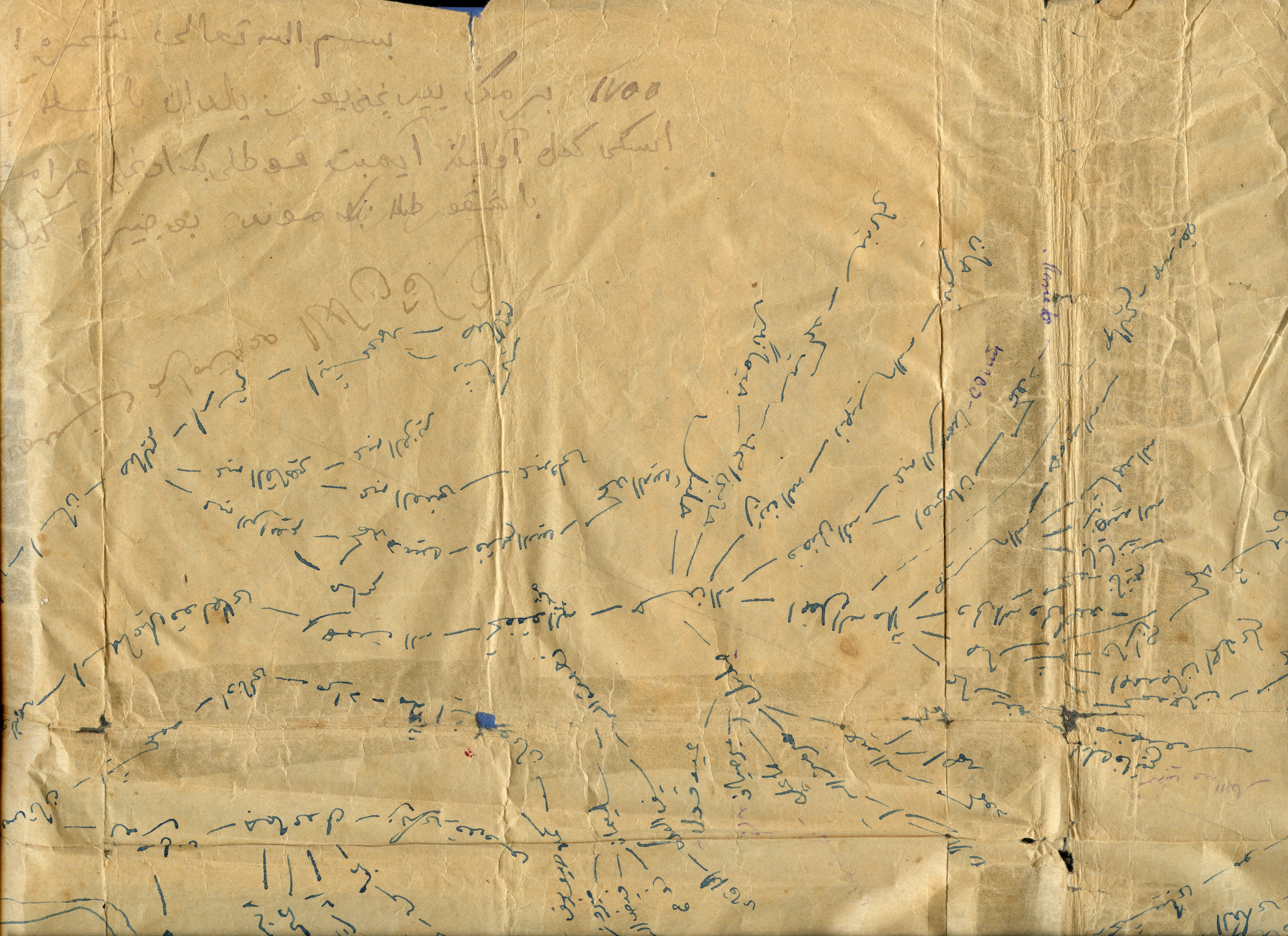 One of the few extant large Bashkir shezhere(genealogy).In this shezhere language Turki described the genealogy of the genus around since the early 15th century to the early 20th.By shezhere in writing, he began to conduct from 1700 year.This shezhere a copy the original or a copy of an earlier about the late 19th century (determined by the type of paper) with later upgrade.In uppercase lettering shezhere contains information about what kind of Bulekey-kudey arrived in the Urals 833 year.Foto made in 2012.